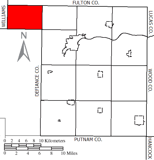 Made by the US Census and modified by myself